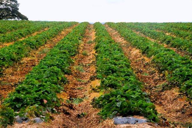 Strawberry fields forever Rows of strawberry plants disappear into the distance at this point.